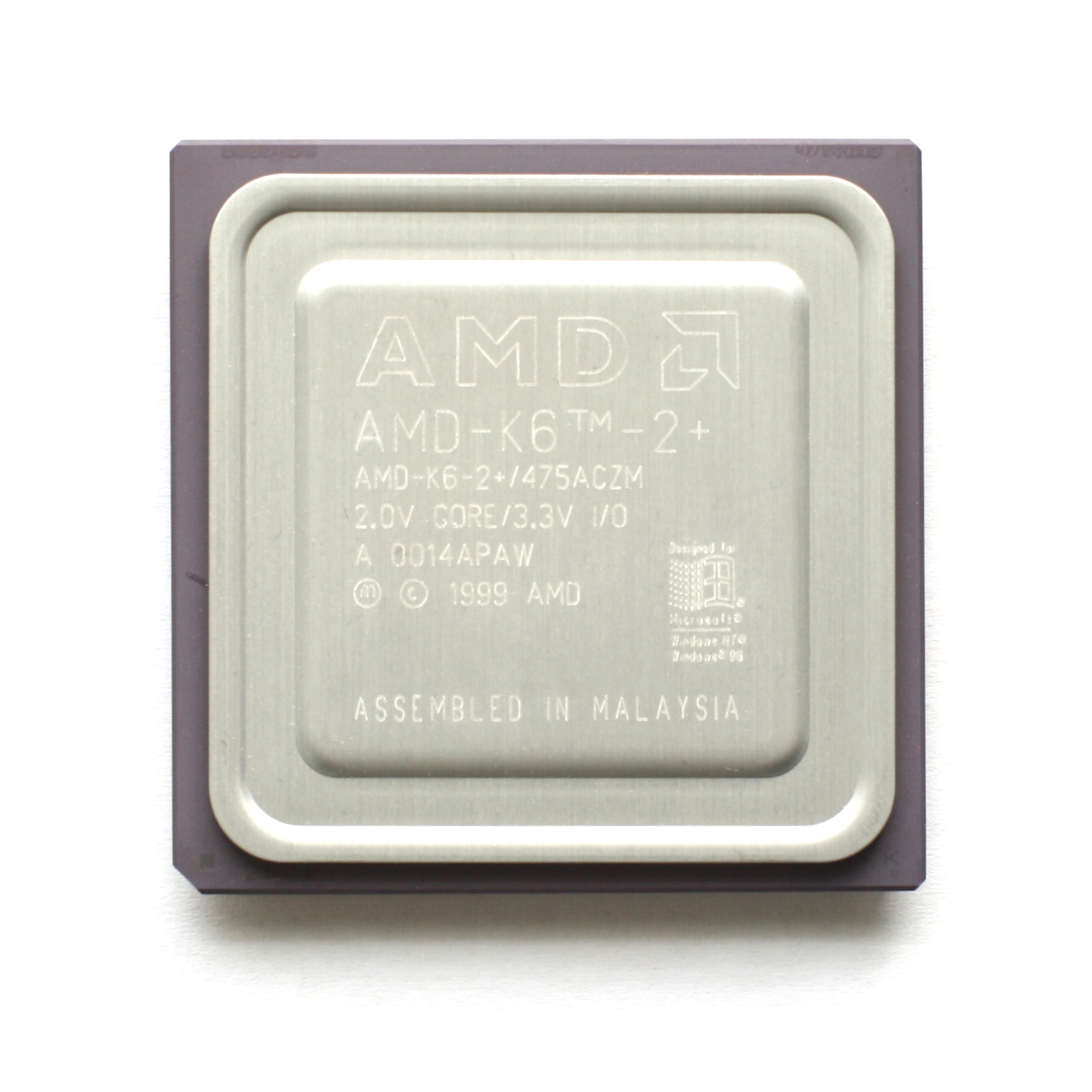 x86-CPU AMD K6-2+